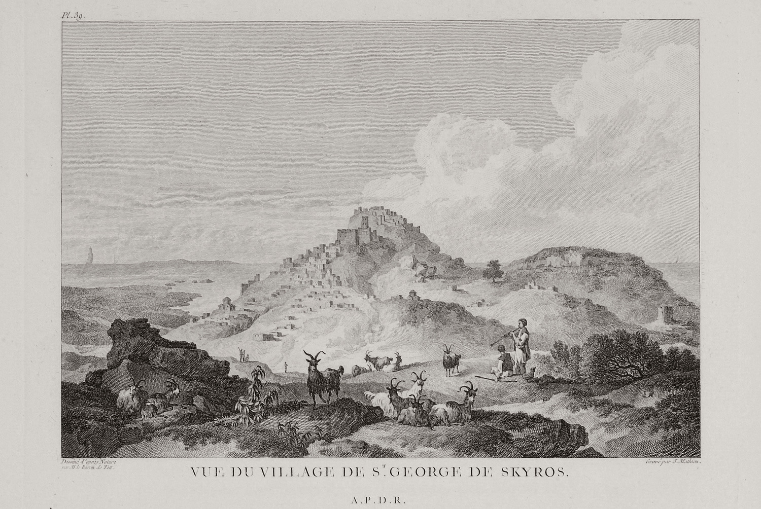 Marie-Gabriel-Florent-Auguste Comte de Choiseul-Gouffier. Voyage pittoresque de la Grèce. Paris, J.-J. Blaise M.DCCC.IX, (1782 1st volume, 1809 2nd volume, 1822 3rd volume, 1842 2nd edition)